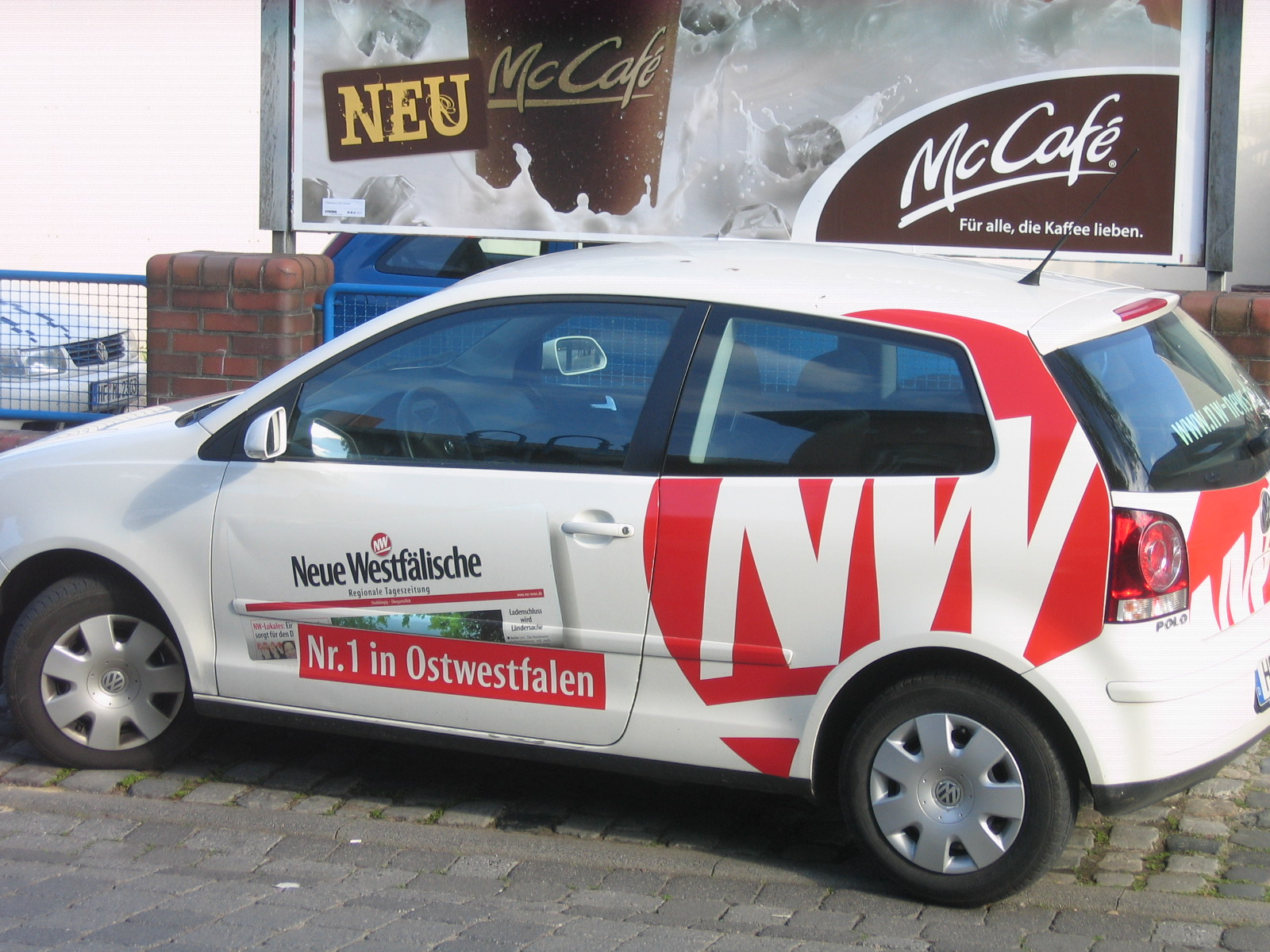 in Bünde, District of Herford, North Rhine-Westphalia, Germany.